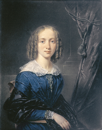 Portrait of Elise Therese Koekkoek, born Daiwaille, by her father Jean Augustin Daiwaille